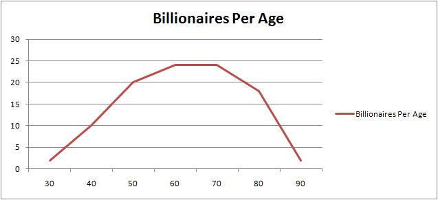 Billionaries per Age Graph